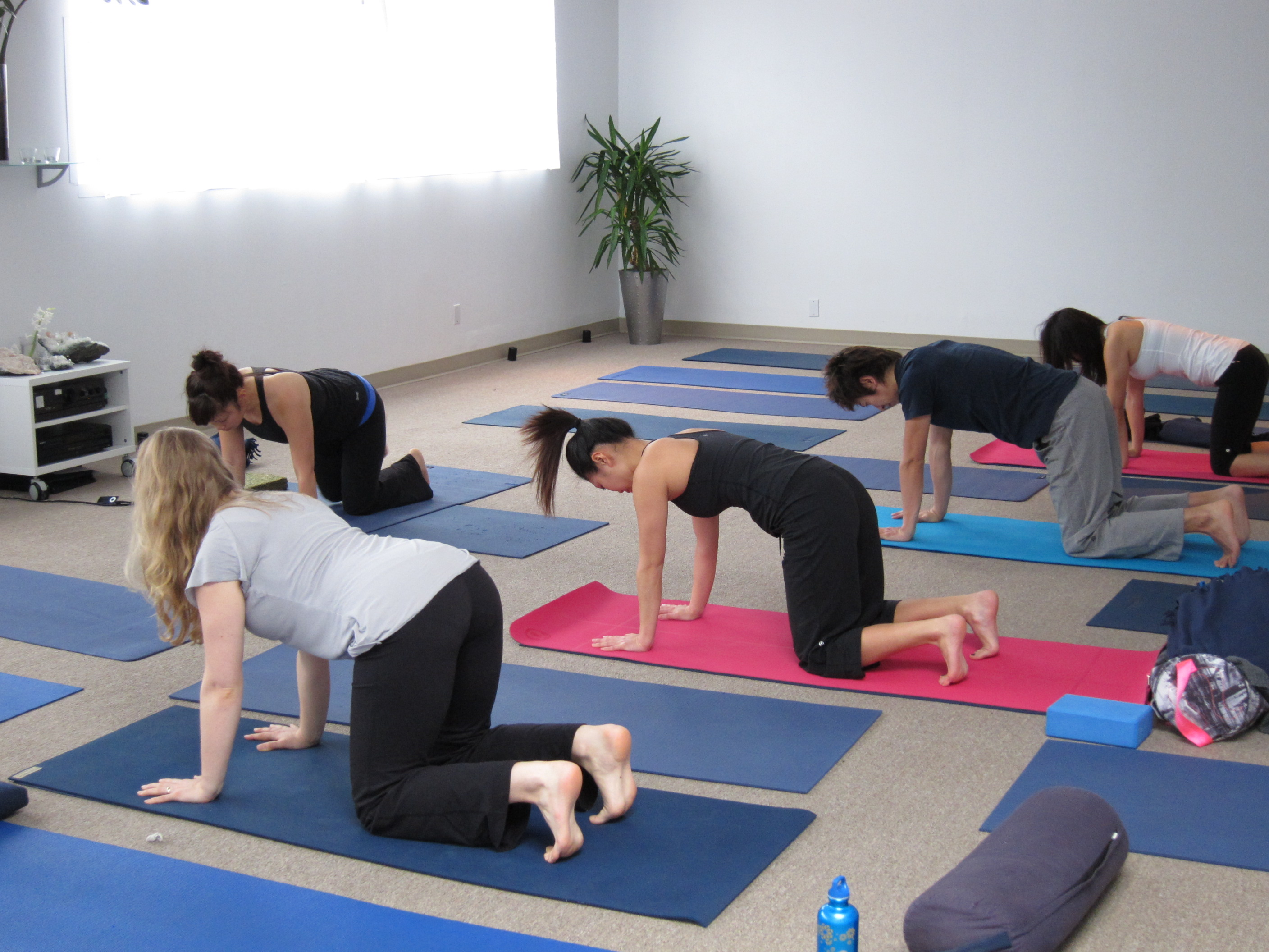 Semperviva yoga studio,Sky center 2582 West broadway